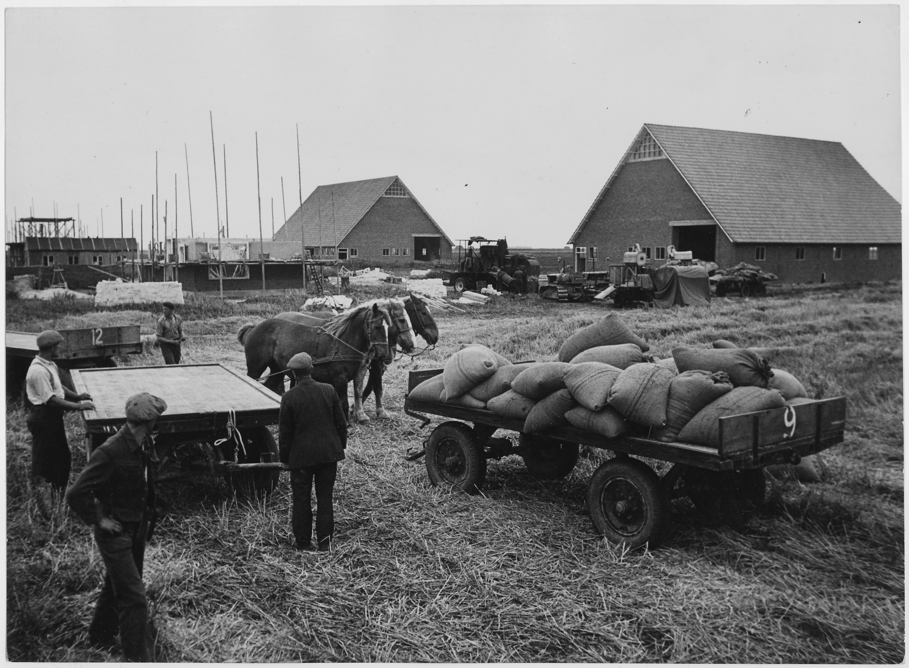 Netherlands. The urgency in developing the reclaimed land of the polders is illustrated in this picture, which shows the land being worked and the barns already built, though the farmhouses are only in the course of construction.